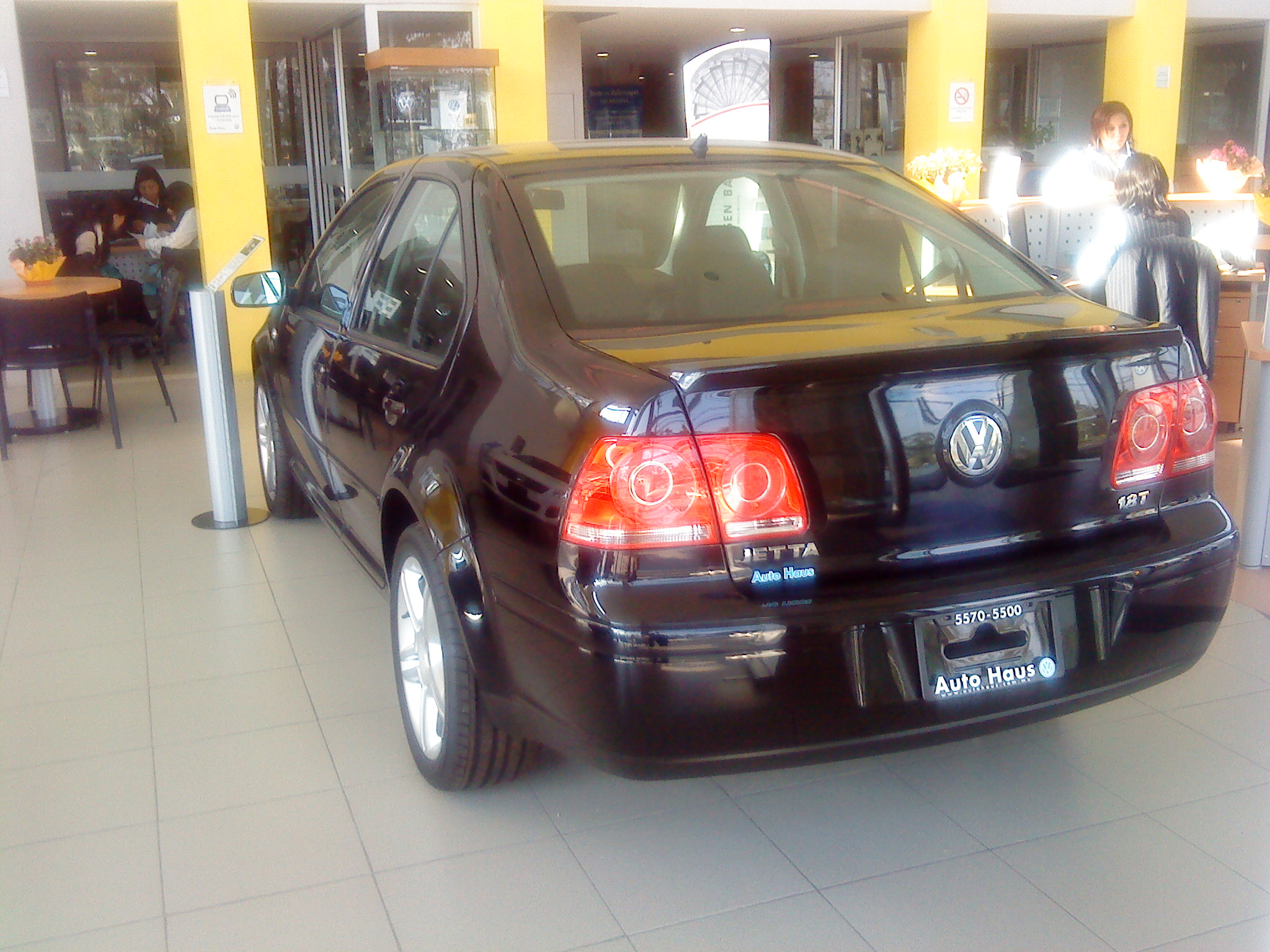 A 2009 Volkswagen Jetta Turbo